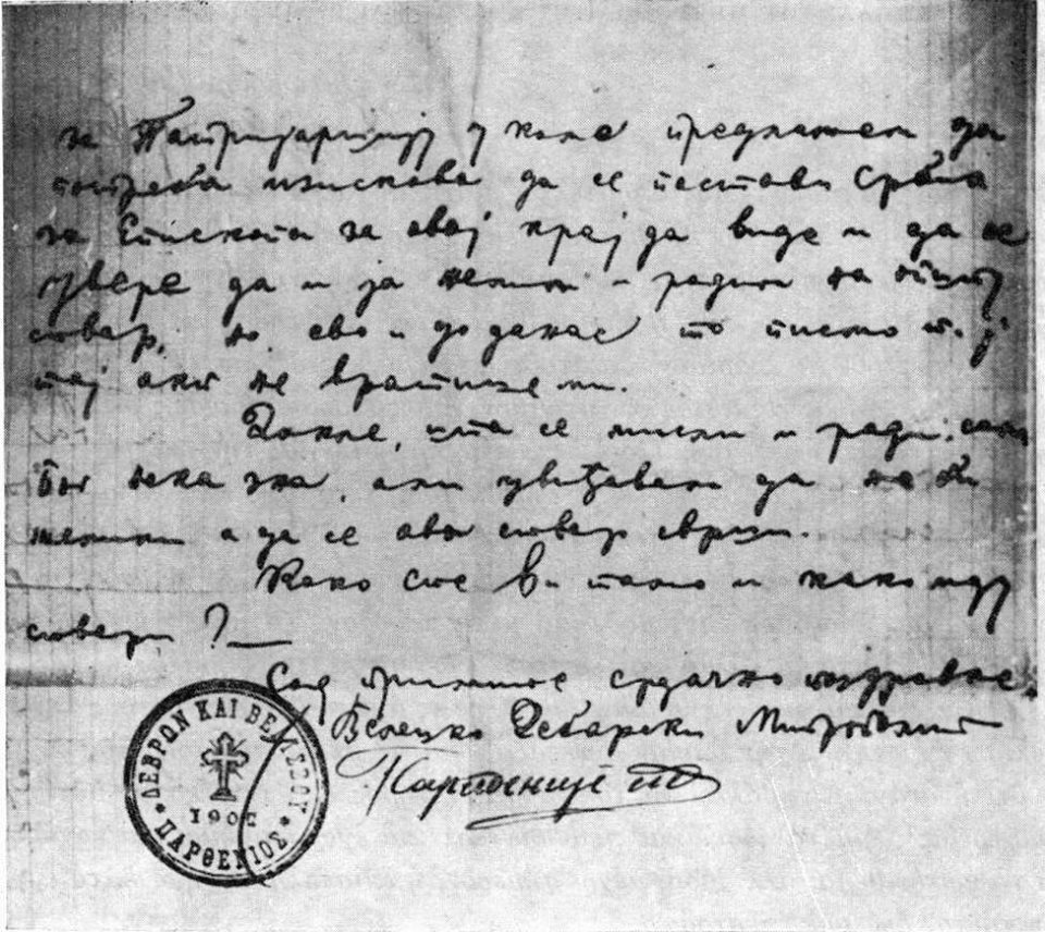 Parthenios Gallias Letter in Serbian.